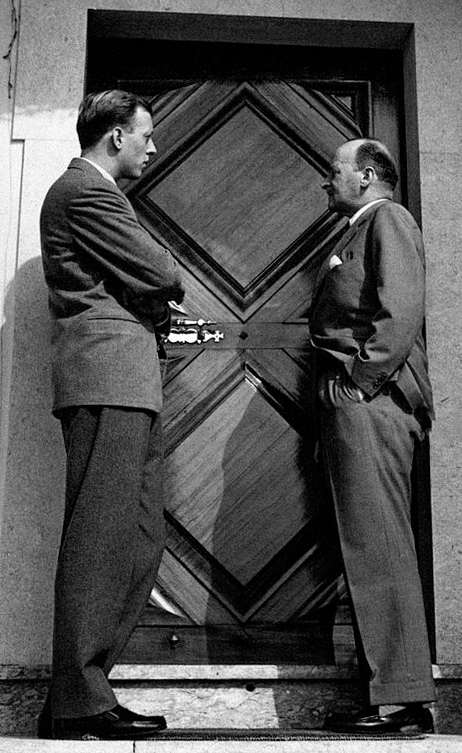 Philipp of Hesse, Landgrave of Hesse-Kassel, and his son Mortiz of Hesse in front of a closed door at the wedding of Princess Maria Pia of Savoy, daughter of King Umberto II of Italy, and Prince Alexander of Yugoslav. Cascais, February 1955